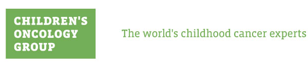 Logo of Children's Oncology Group, the world’s largest organization devoted exclusively to childhood and adolescent cancer research